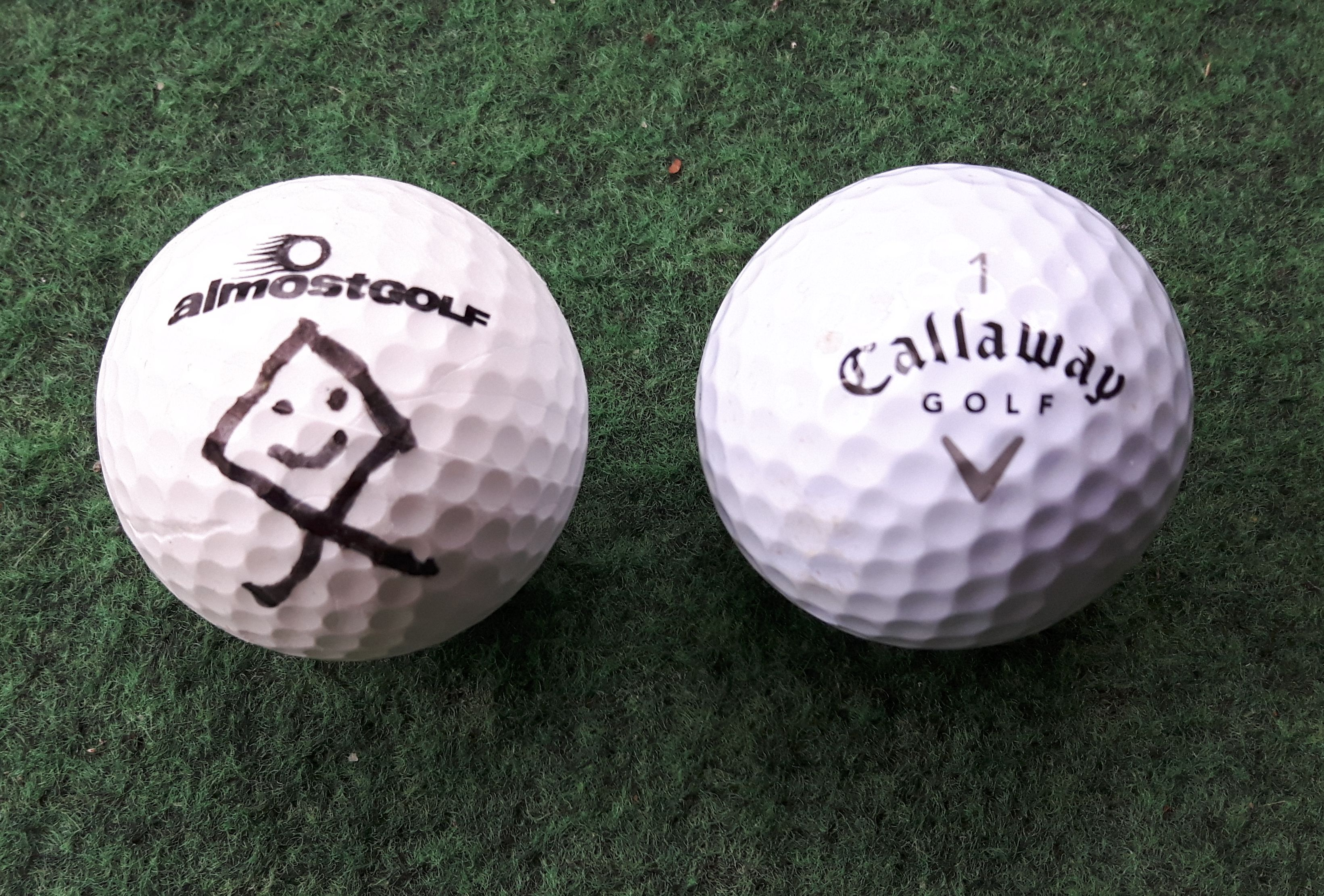 Almost Golfball